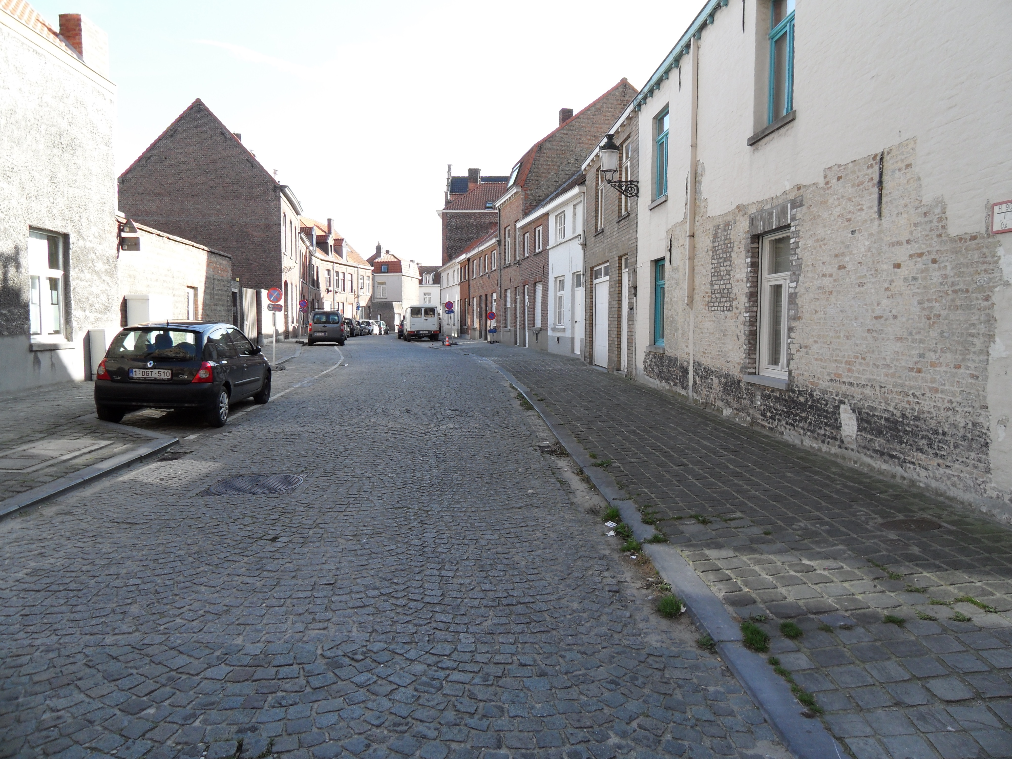 Kapelstraat in Bruges